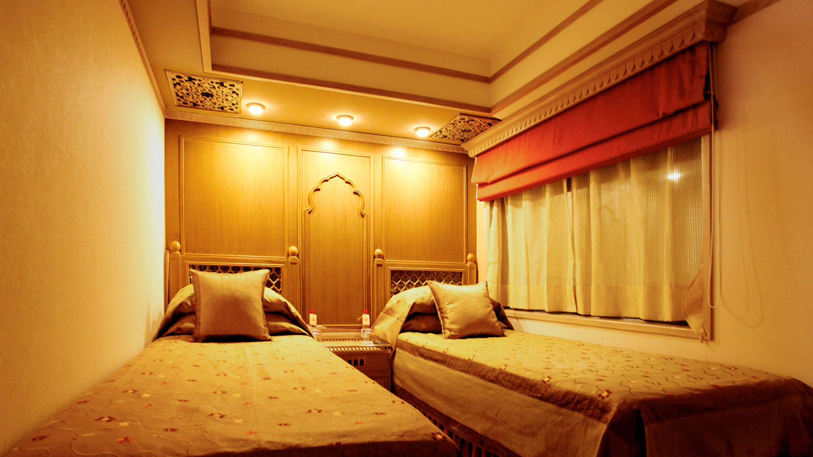 Maharajas' Express erkunden reiche historische erbe der Indien-Tour, eine unvergleichliche luxus-zug erfahrung eines ganzen Lebens zu entdecken. For more info plz visit